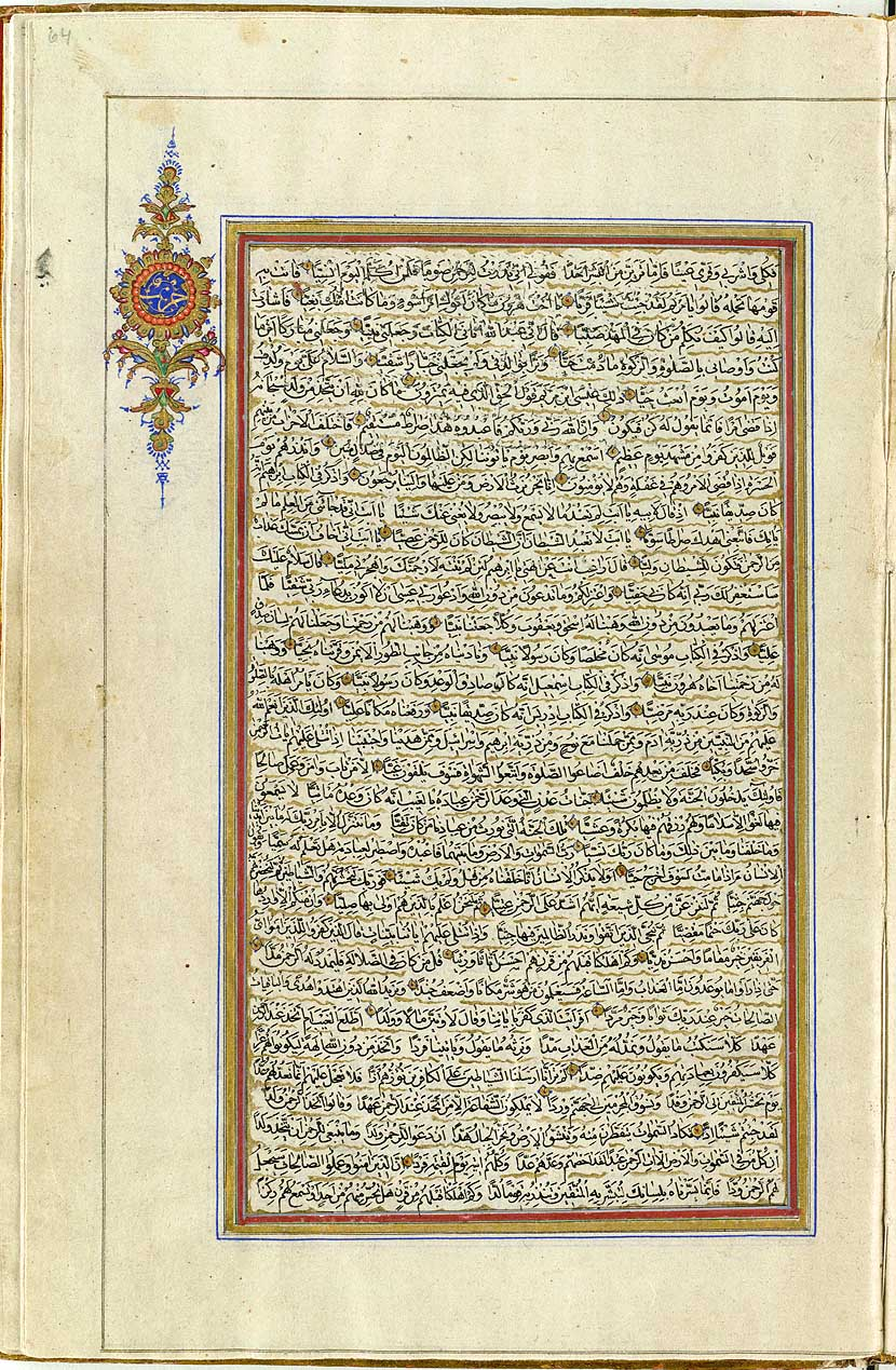 Scan of a Qur'an from the year 1874